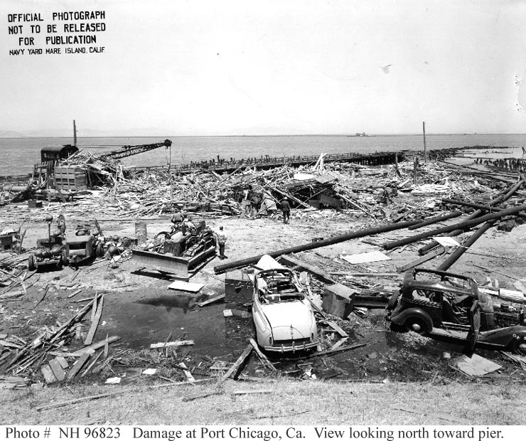 Port Chicago after the July 17, 1944 explosion. Source states, "This view looks north, showing the wreckage of Building A-7 (Joiner Shop) in the center and ship pier beyond...Bulldozer and damaged automobiles in the foreground, railway crane at left, and scattered pilings."